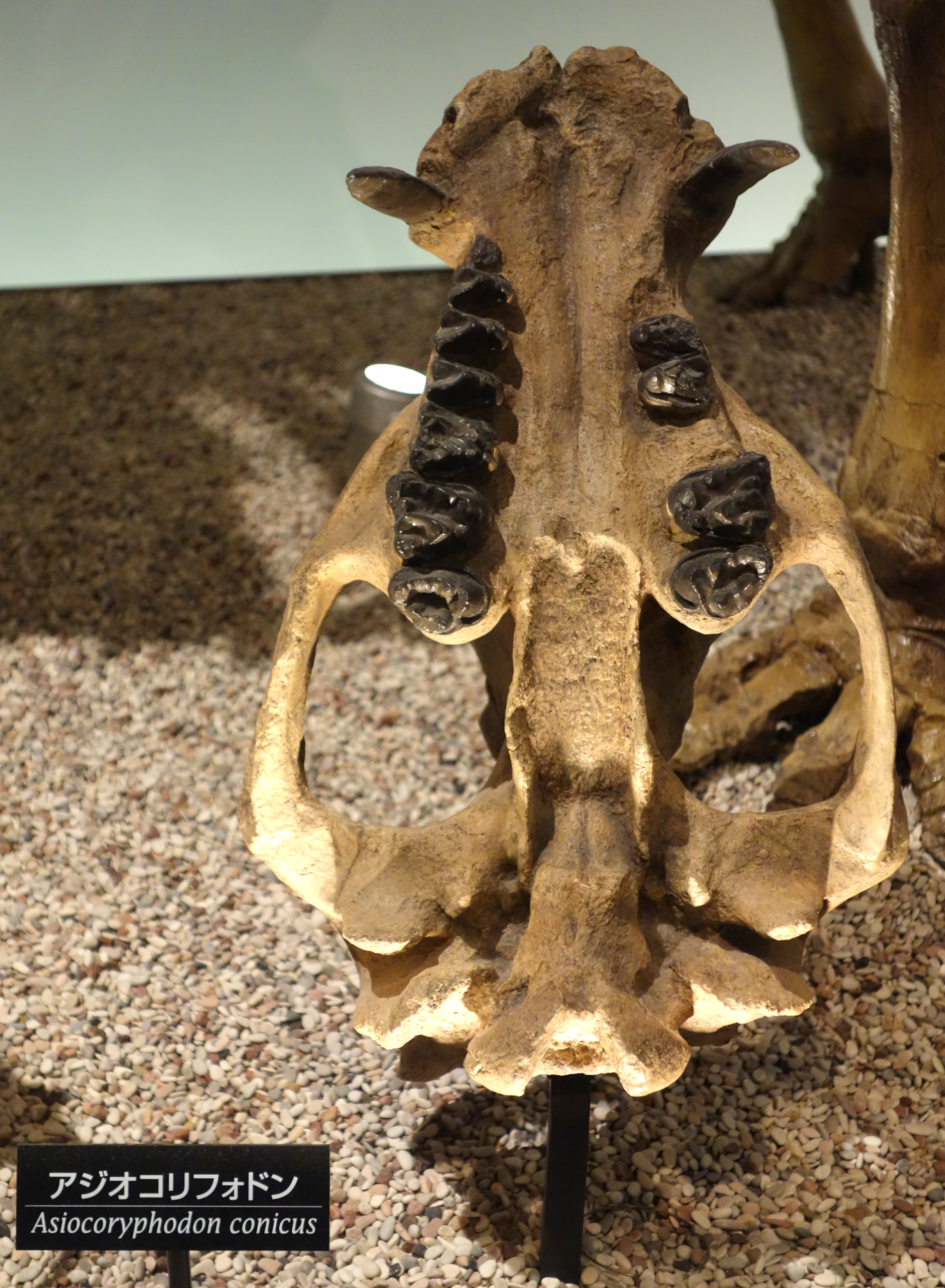 Exhibit in the National Museum of Nature and Science, Tokyo, Japan.